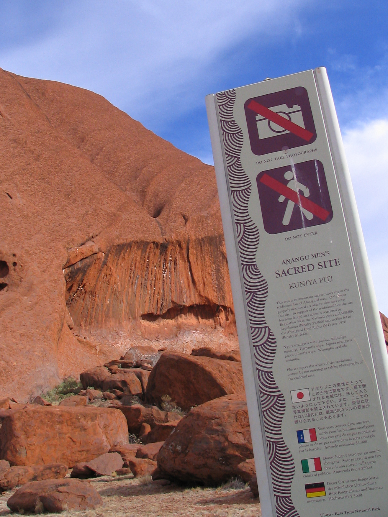 A sign prohibiting access and photography outside a sacred men's site at Uluru